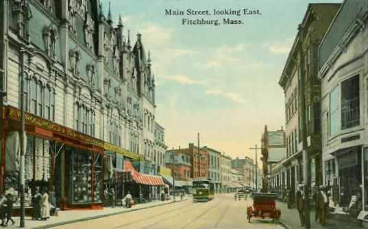 Main Street, looking east, Fitchburg, MA; from a c. 1912 postcard.